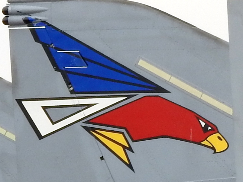 The tail marking of F-4EJ Kai 97-8420 at the 2016 Hyakuri Air Show